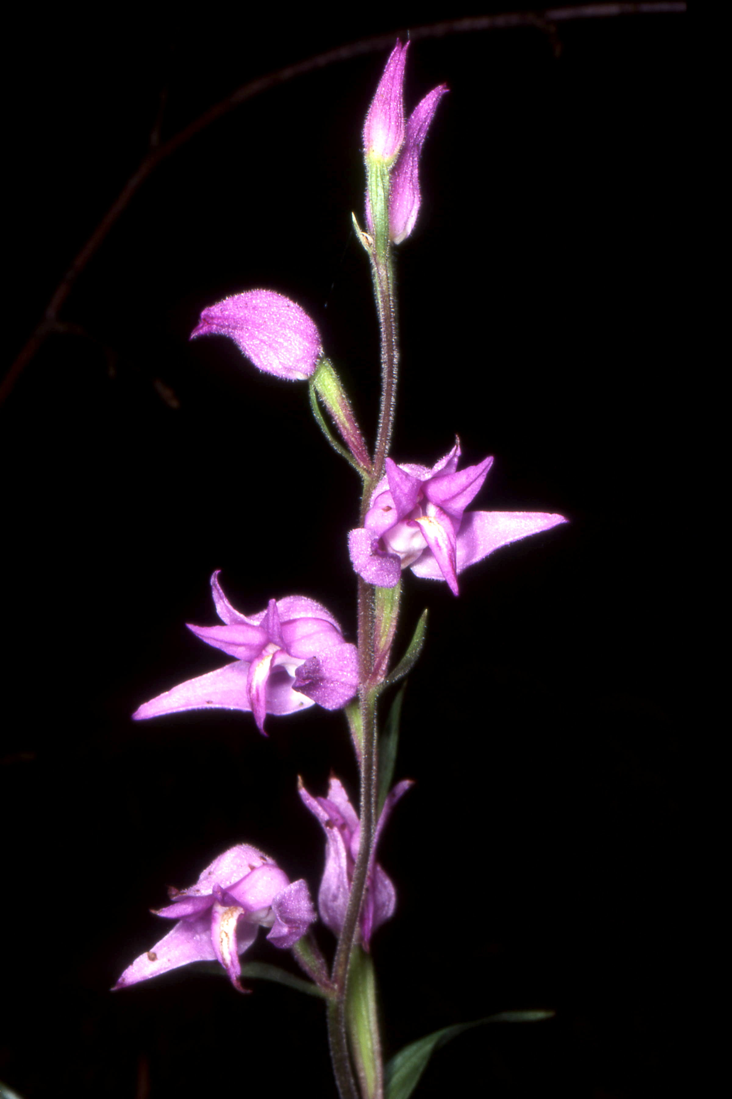 Cephalanthera rubra